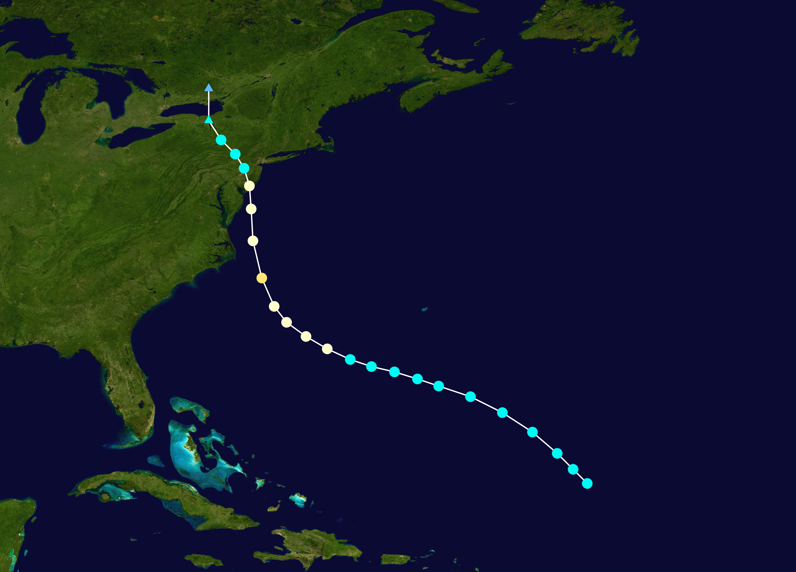 Track map of Hurricane Four of the 1903 Atlantic hurricane season. The points show the location of the storm at 6-hour intervals. The colour represents the storm's maximum sustained wind speeds as classified in the Saffir–Simpson scale (see below), and the shape of the data points represent the nature of the storm, according to the legend below. Saffir–Simpson scale Tropical depression≤38 mph≤62 km/h Category 3111–129 mph178–208 km/h Tropical storm39–73 mph63–118 km/h Category 4130–156 mph209–251 km/h Category 174–95 mph119–153 km/h Category 5≥157 mph≥252 km/h Category 296–110 mph154–177 km/h Unknown Storm type Tropical cyclone Subtropical cyclone Extratropical cyclone / Remnant low / Tropical disturbance / Monsoon depression